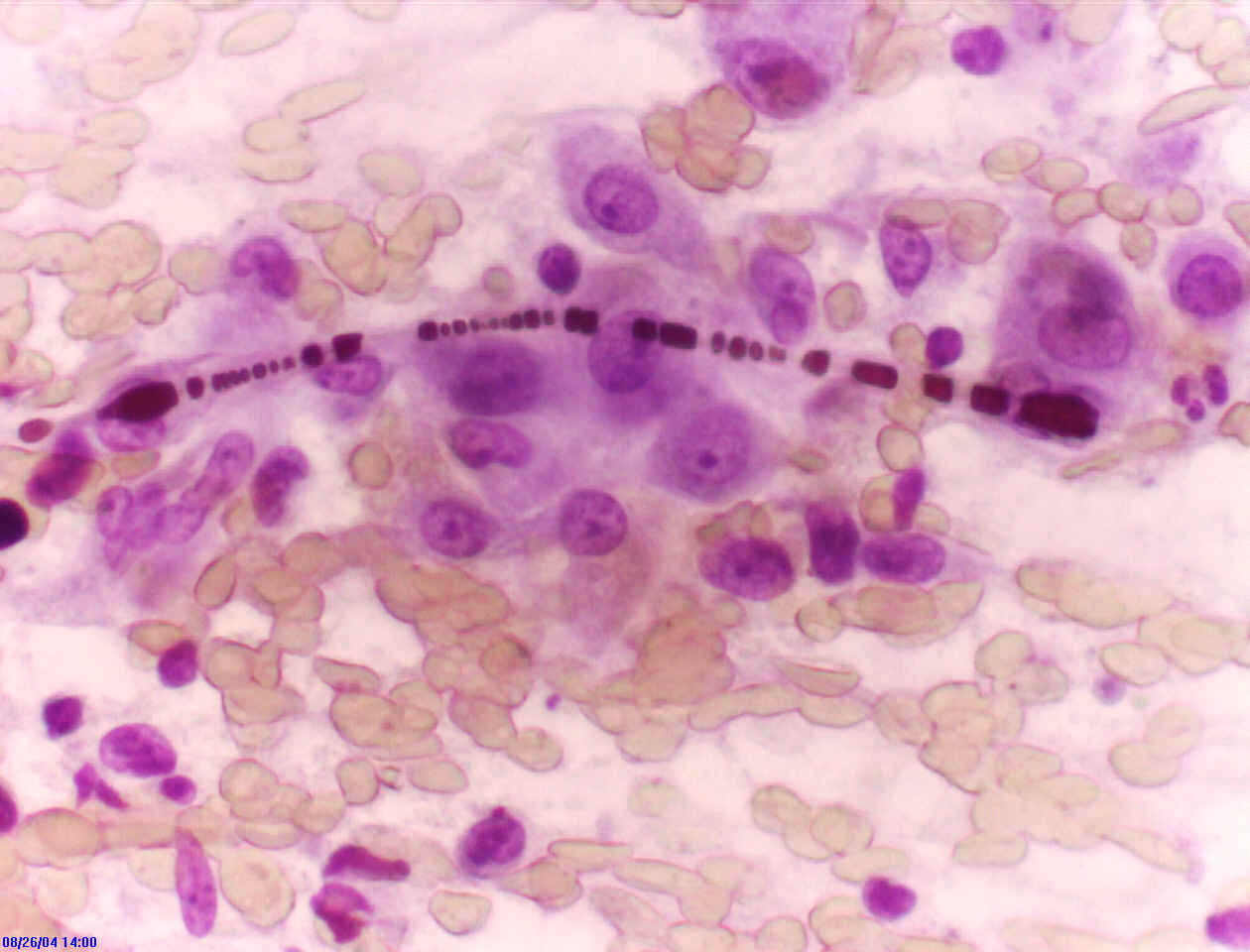 Asbestos body in a cytological slide (smear from a lung carcinoma;neoplastic calls can be seen too)